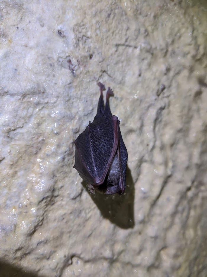 A lesser horseshoe bat (Rhinolophus hipposideros) hibernating underground in Gloucestershire, UK.